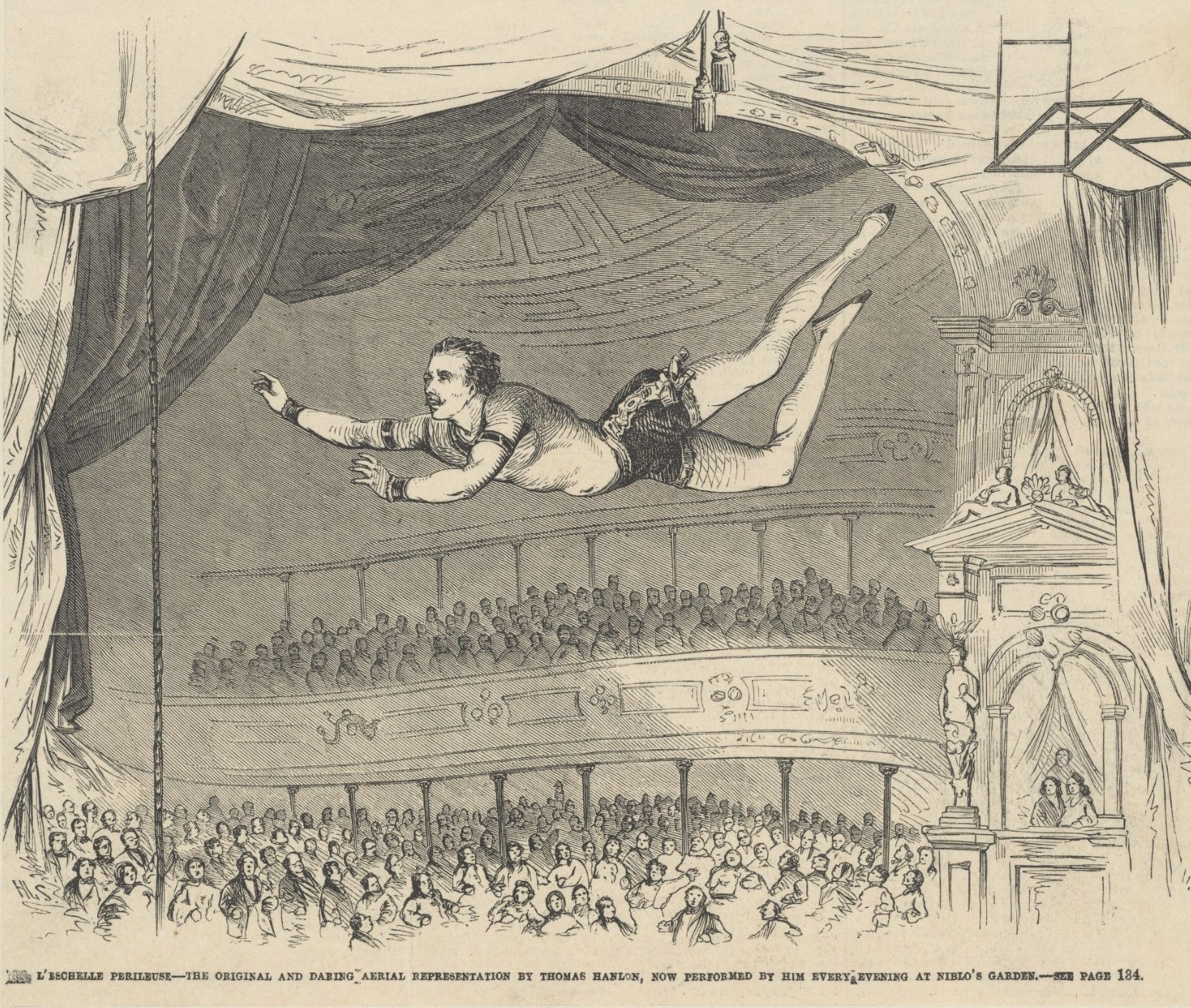 Illustration featuring circus performer/acrobat Thomas Hanlon performing "l'eschelle perileuse" at Niblo's Garden. Cropped version. Accompanying pencil notation gives date as January 1860.. Circus Images, 1766-1939 (MS Thr 693). Harvard Theatre Collection, Houghton Library, Harvard University